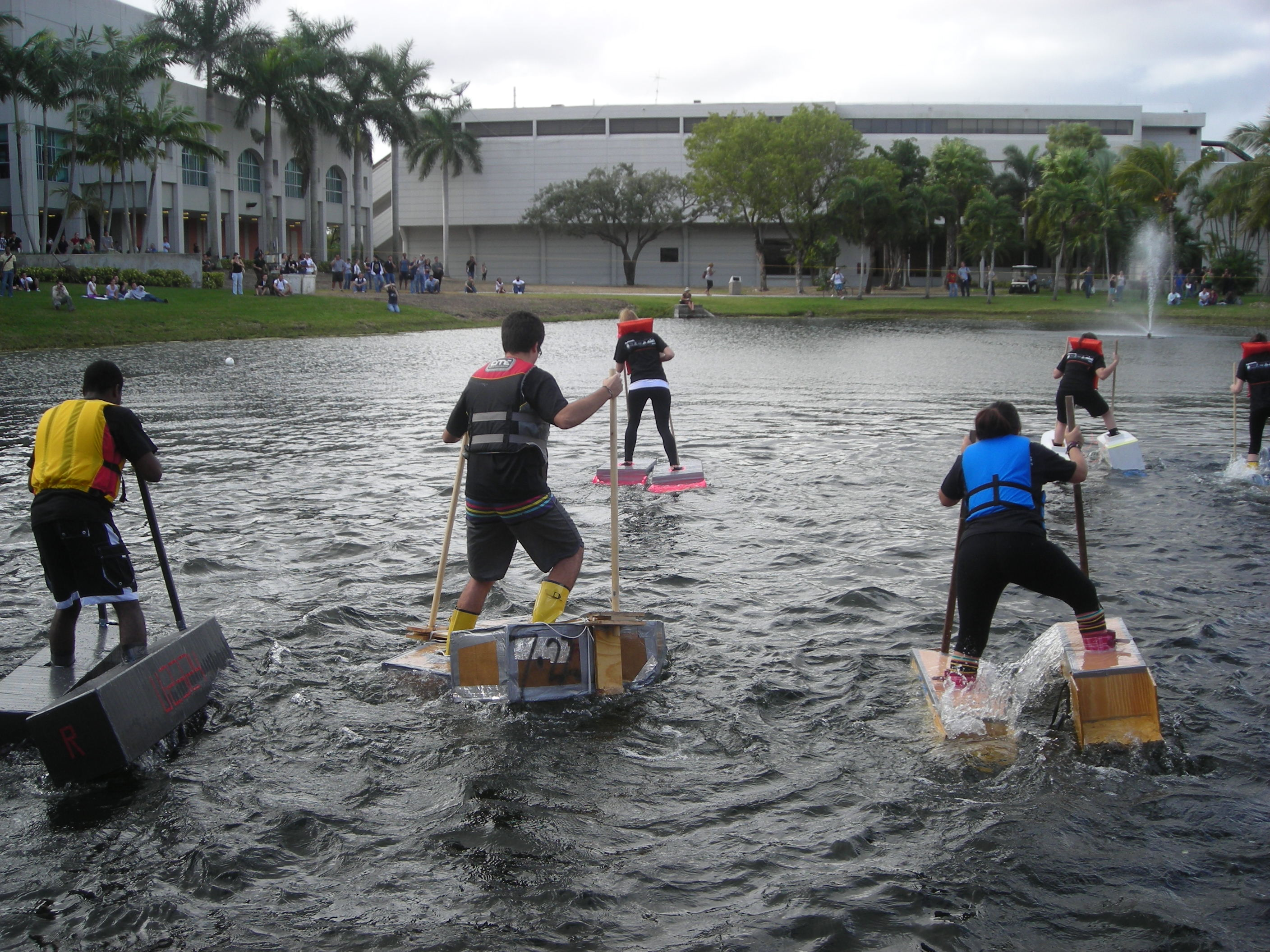 Annual Walk on Water project at Florida International University